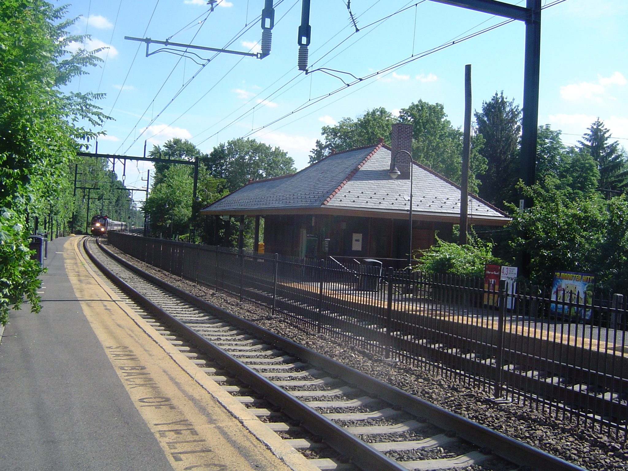 Watchung avenue station from the northbound platform